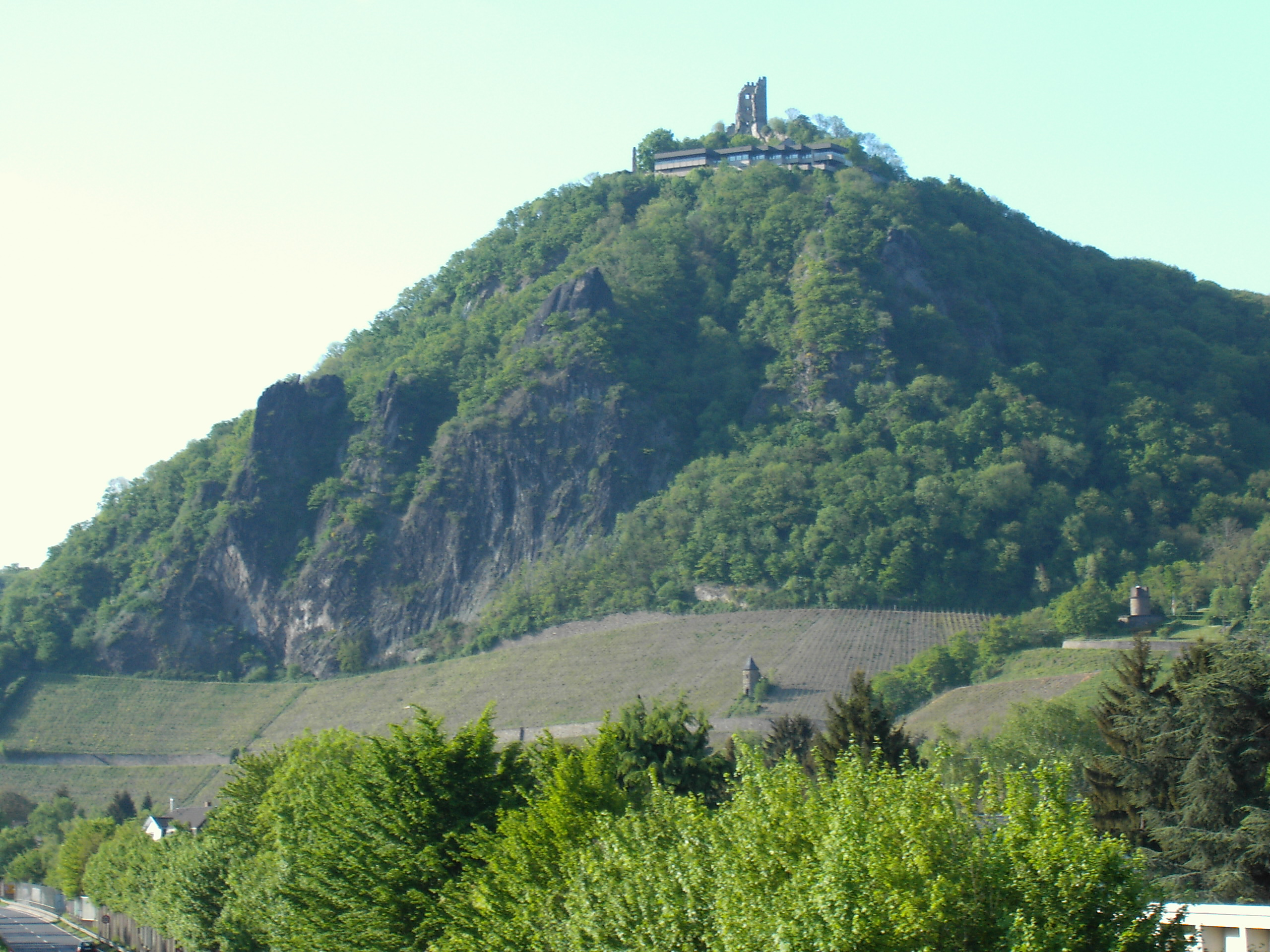 View on the Drachenfels in Siebengebirge near Bonn.